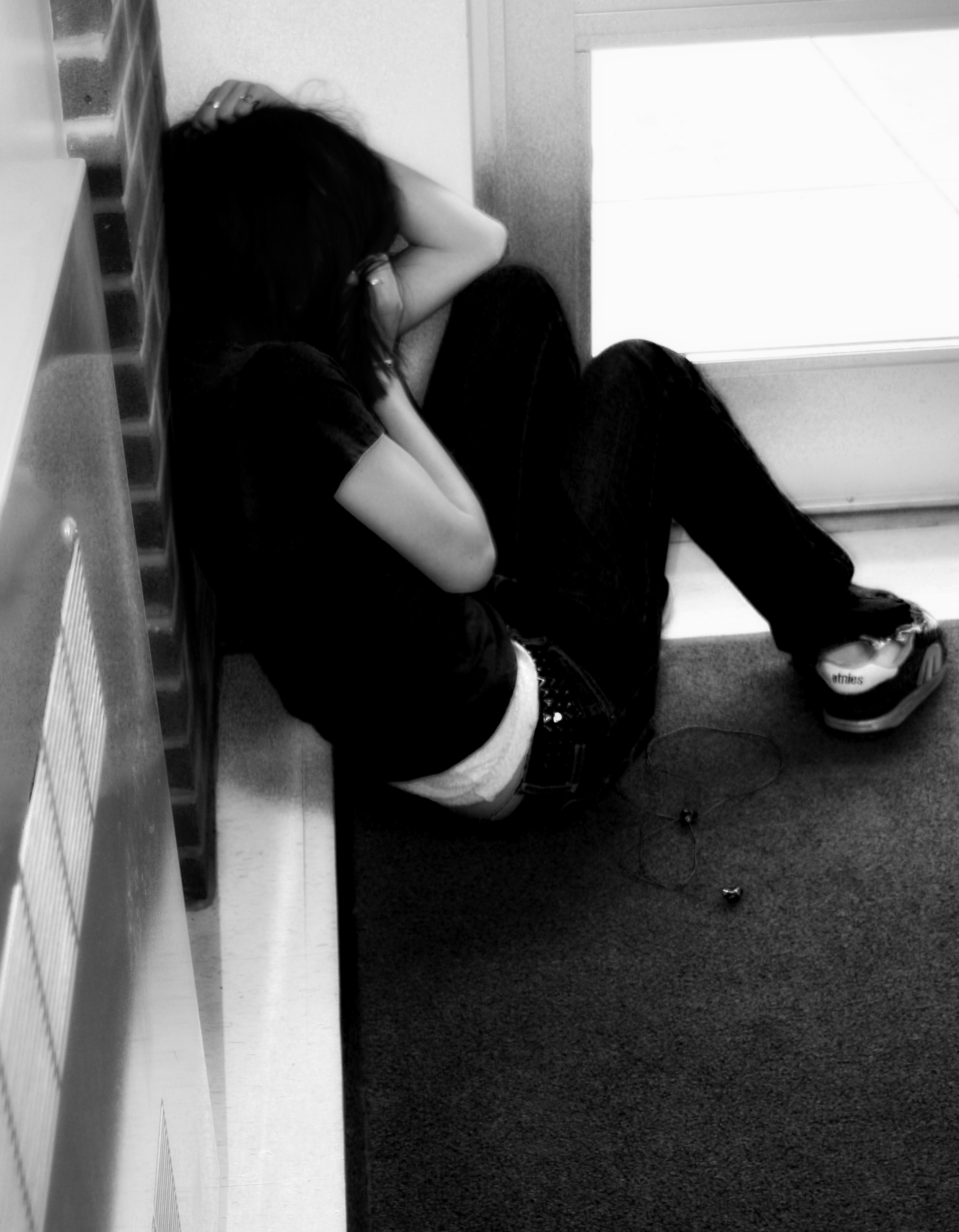 Human Experiences, depression/loss of loved one